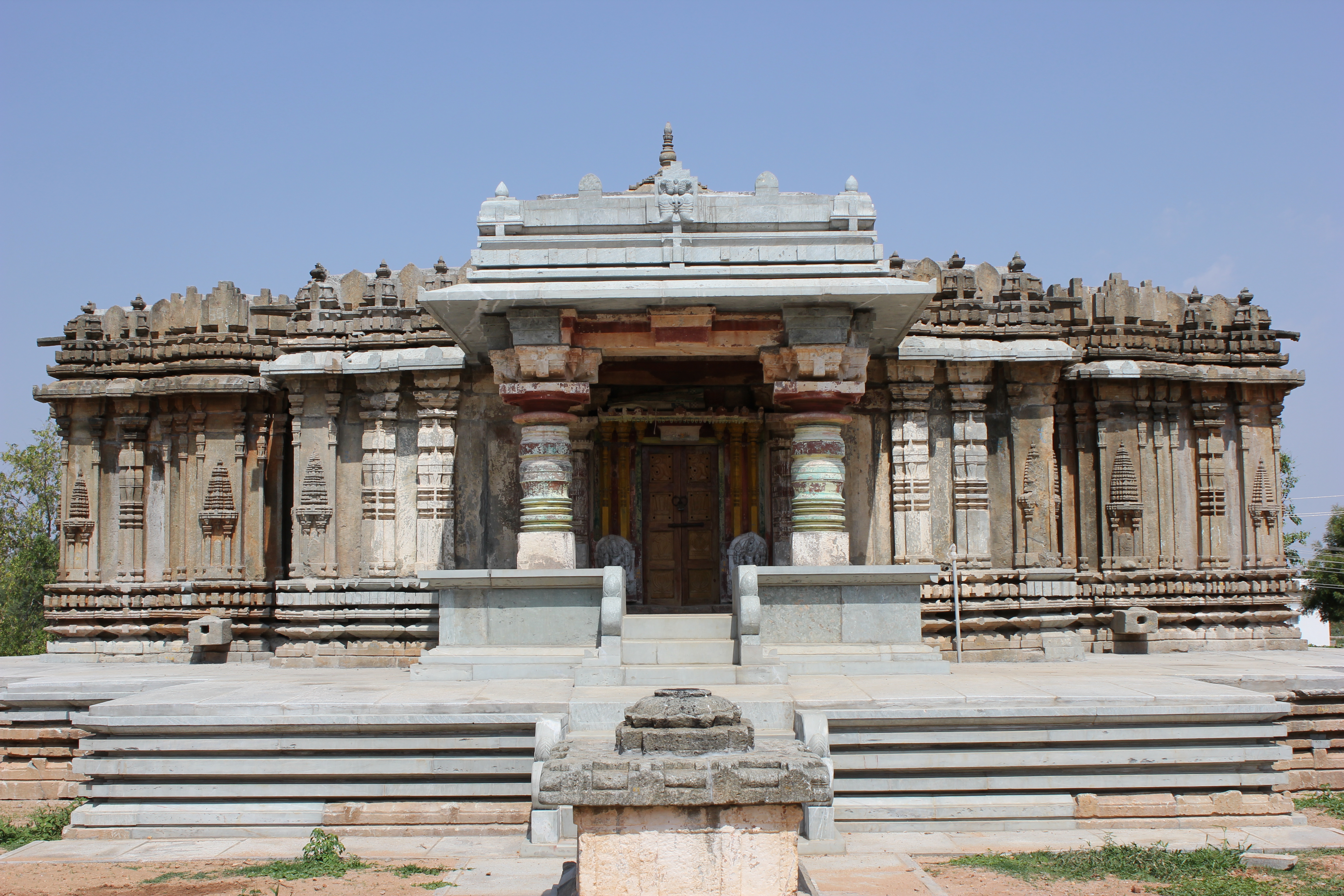 This photograph was taken by me (Dinesh Kannambadi) in the Yoga Madhava temple at Settikere, Tumkur district, Karnataka state, India. The temple was built in 1261 AD during the rule of the Hoysala Empire King Narasimha III.